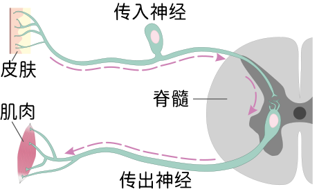 Afferent and efferent neurons 中文（中国大陆）: 传出神经与传入神经示意图